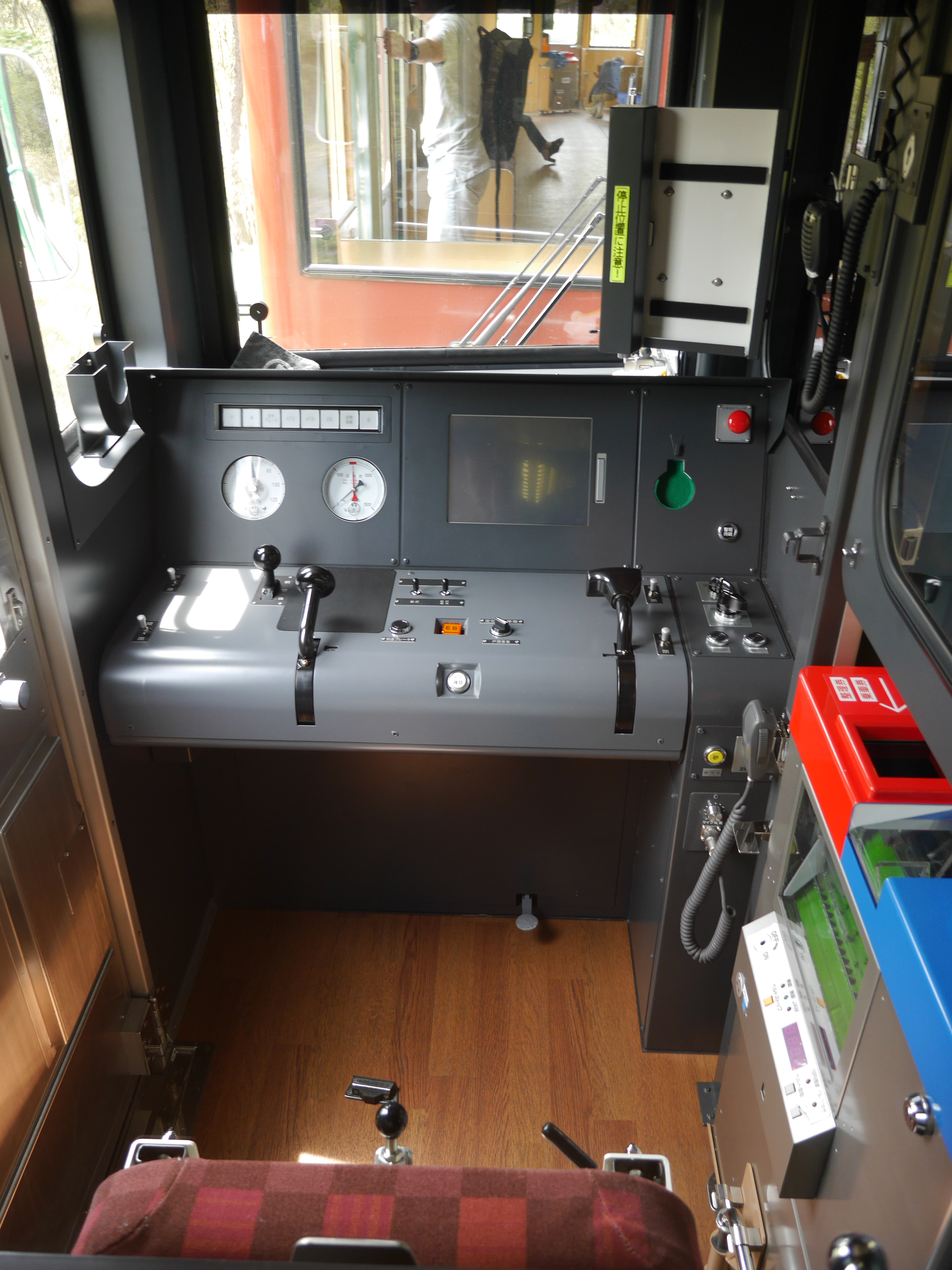 Driver's cabin Shigaraki Kogen Railway SKR501